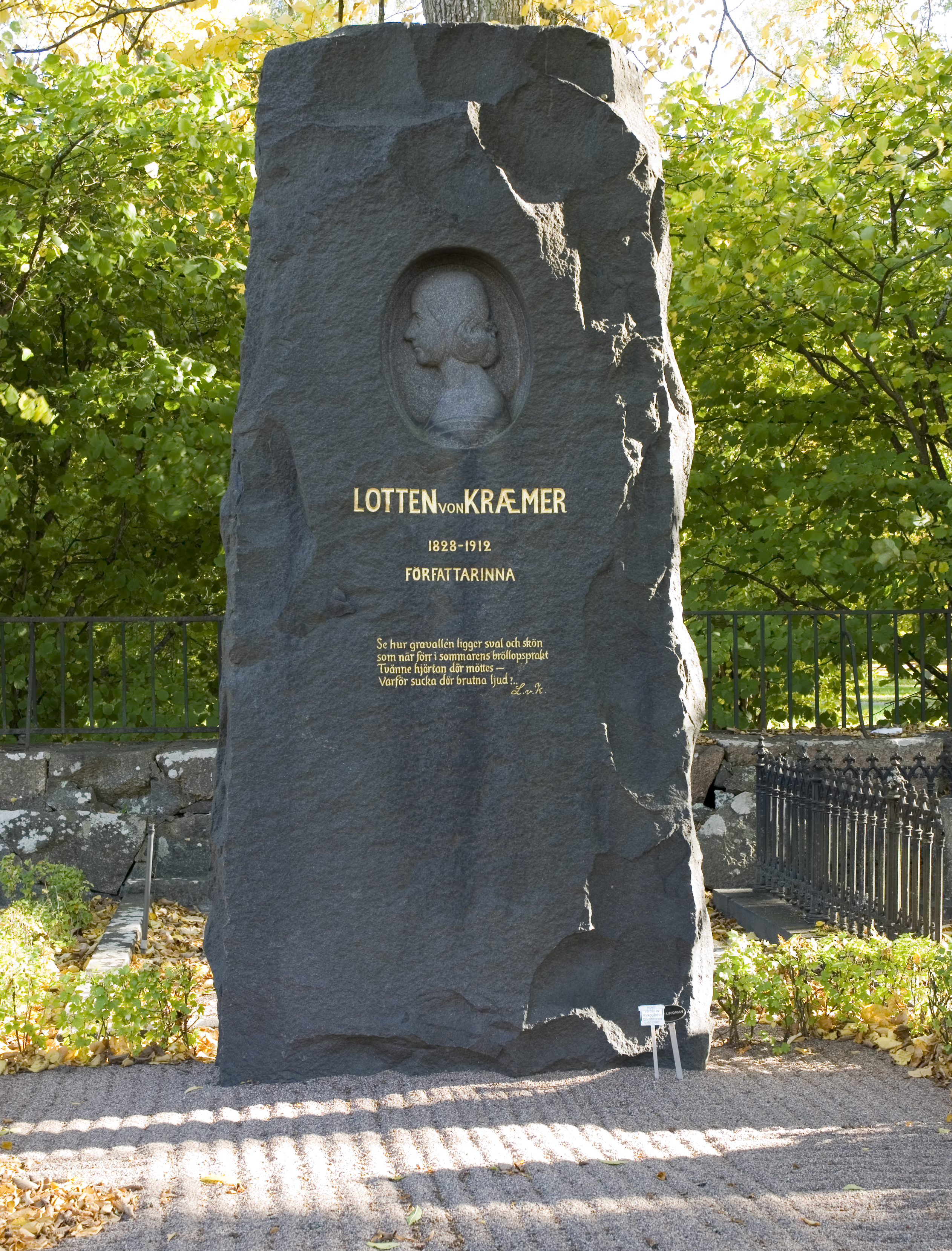 The grave of the Swedish writer Lotten von Kraemer, in Uppsala